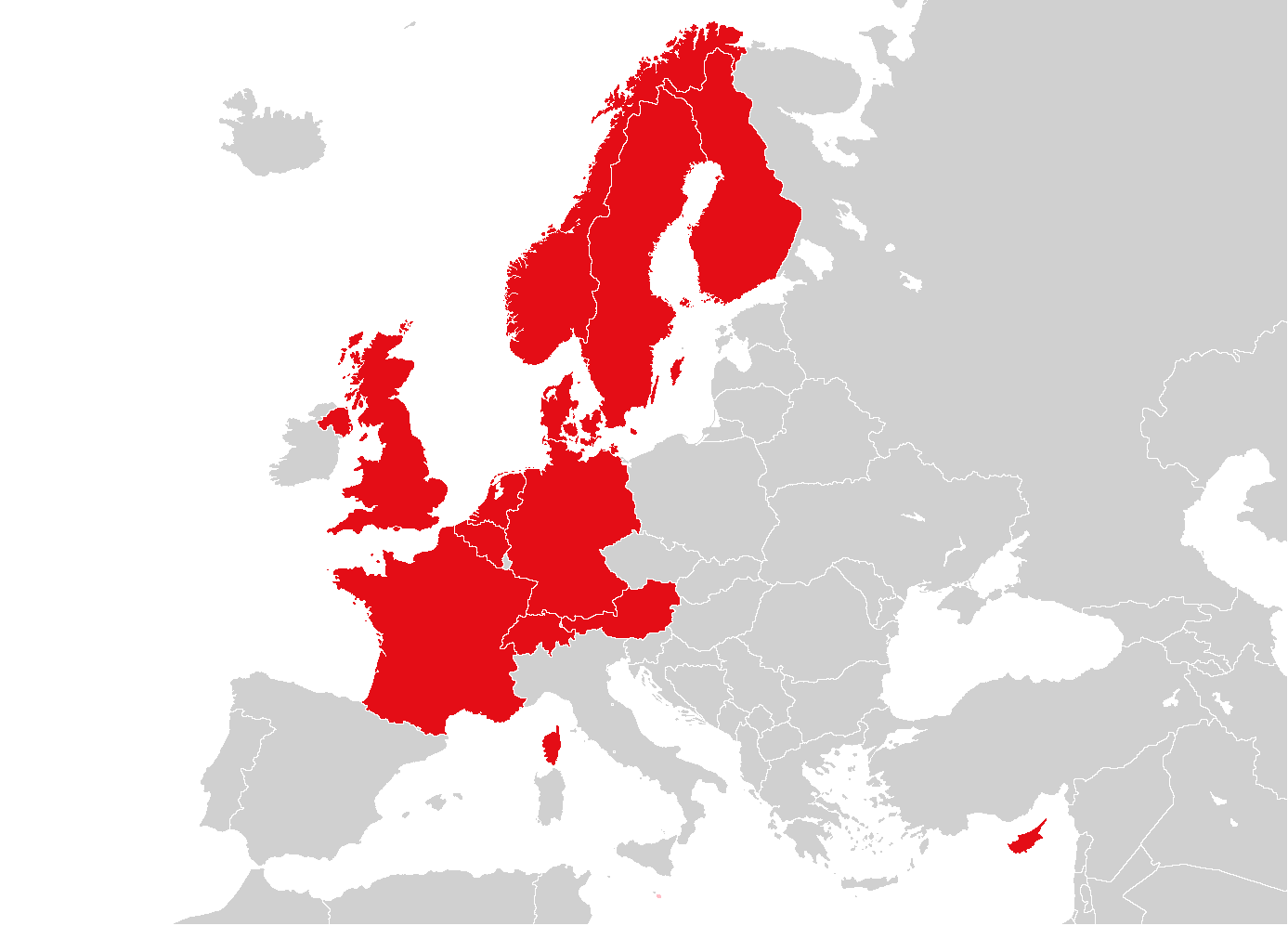 Map illustrating the migration of Turkish guestworkers. Turkey's labour recruitment agreements with Western Countries: Austria, 15 May 1964 Belgium, 16 July 1964 Denmark, 13 November 1970 France, 8 May 1965 Germany, 30 October 1961 Netherlands, 19 August 1964 Norway, 20 July 1978 Sweden, 10 March 1967 Switzerland, 1 May 1969 Turkish Republic of Northern Cyprus, 9 March 1987 United Kingdom, 9 September 1959 (sources:[1] and [2] (page 61))